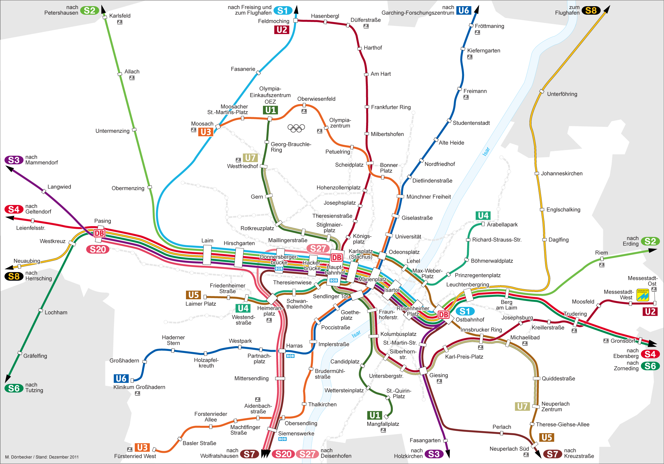 Topographical rapid transit network map of Munich 2011